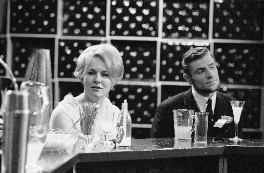 Photograph of the Finnish vocalists Marjatta Leppänen (1937–) and Viktor Klimenko (1942–) at the Finnish Eurovision Song Contest of 1965.